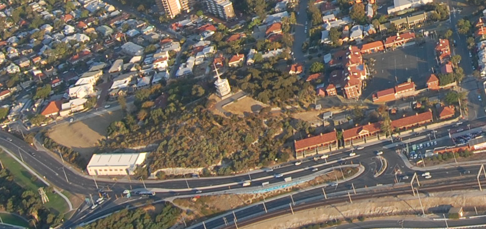 An aerial photograph showing Cantonment Hill and the Army Barracks, in Fremantle, Western Australia.